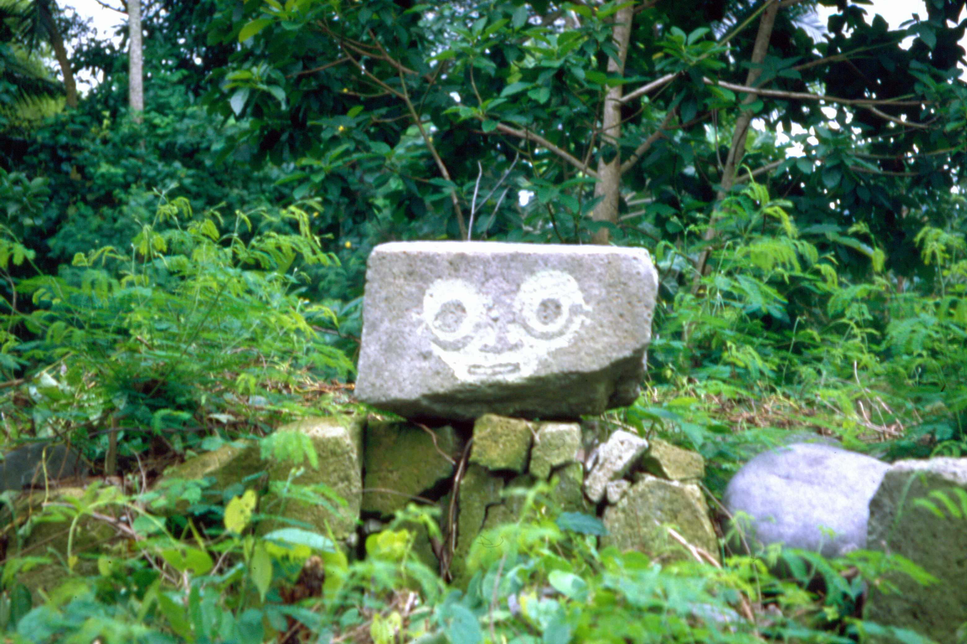 Tiki in Hakamoui Valley, Ua Pou, Marquesas Islands, French Polynesia